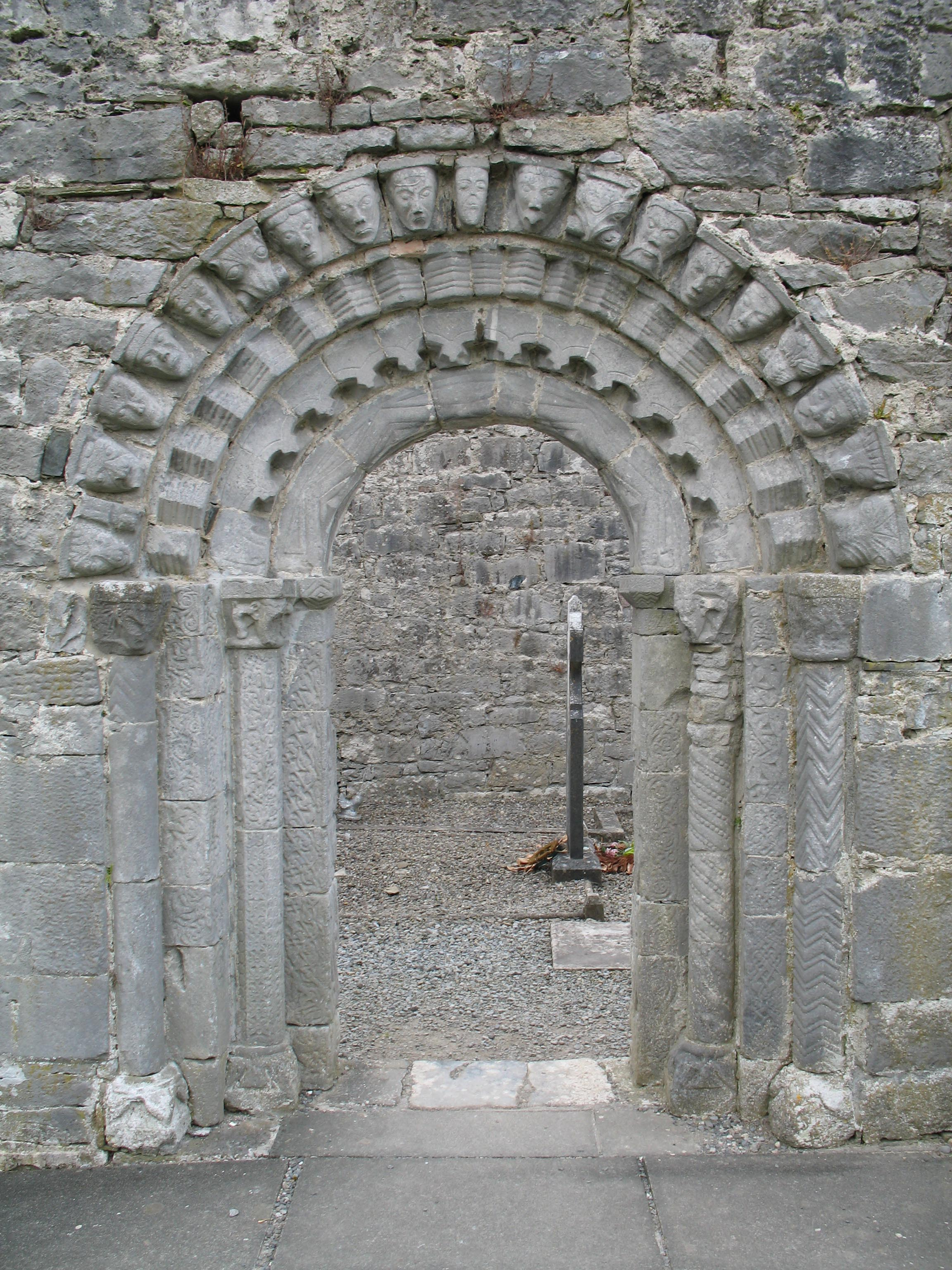 Photo by William Bennett